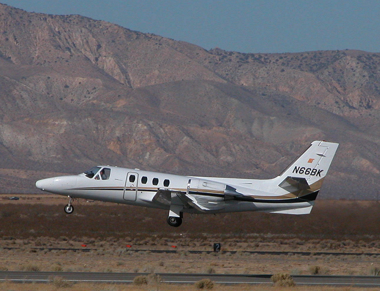 A Cessna Model 501 Citation I/SP takes off from the Mojave Spaceport